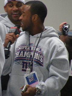 Sinorice Moss at the Giants parade in Manhattan the Tuesday following the Giants victory in Super Bowl XLII.